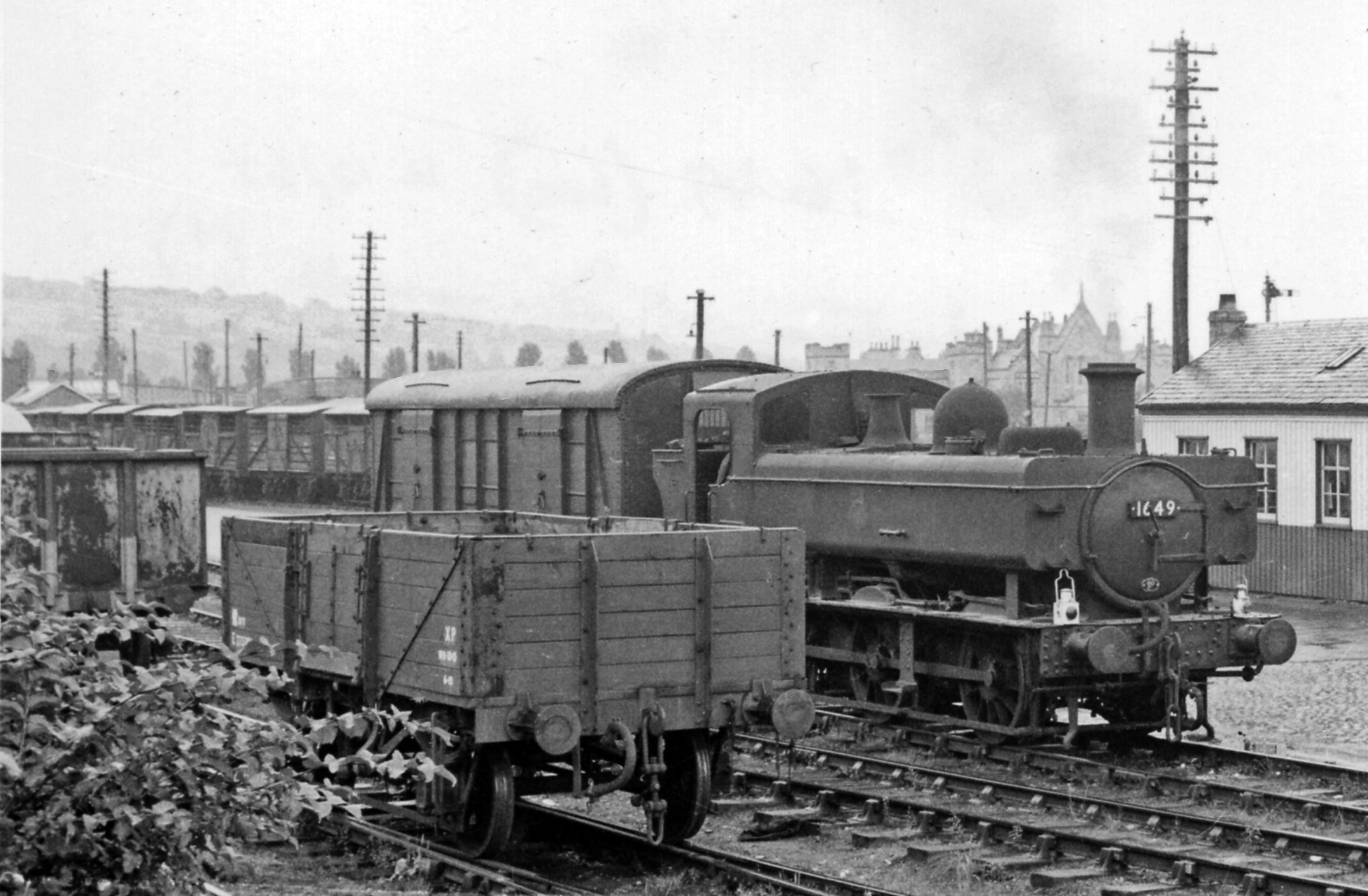 Ex-GWR Pannier tank engine in Northern Scotland, at Dingwall. In the goods yard south of Dingwall station, WR/GWR '1600' class 0-6-0T No. 1649 (built 5/51, withdrawn 12/62) is ending its short life at Dingwall, having been brought up to work the Dornoch branch after all the main lines had turned over to Diesel operation.